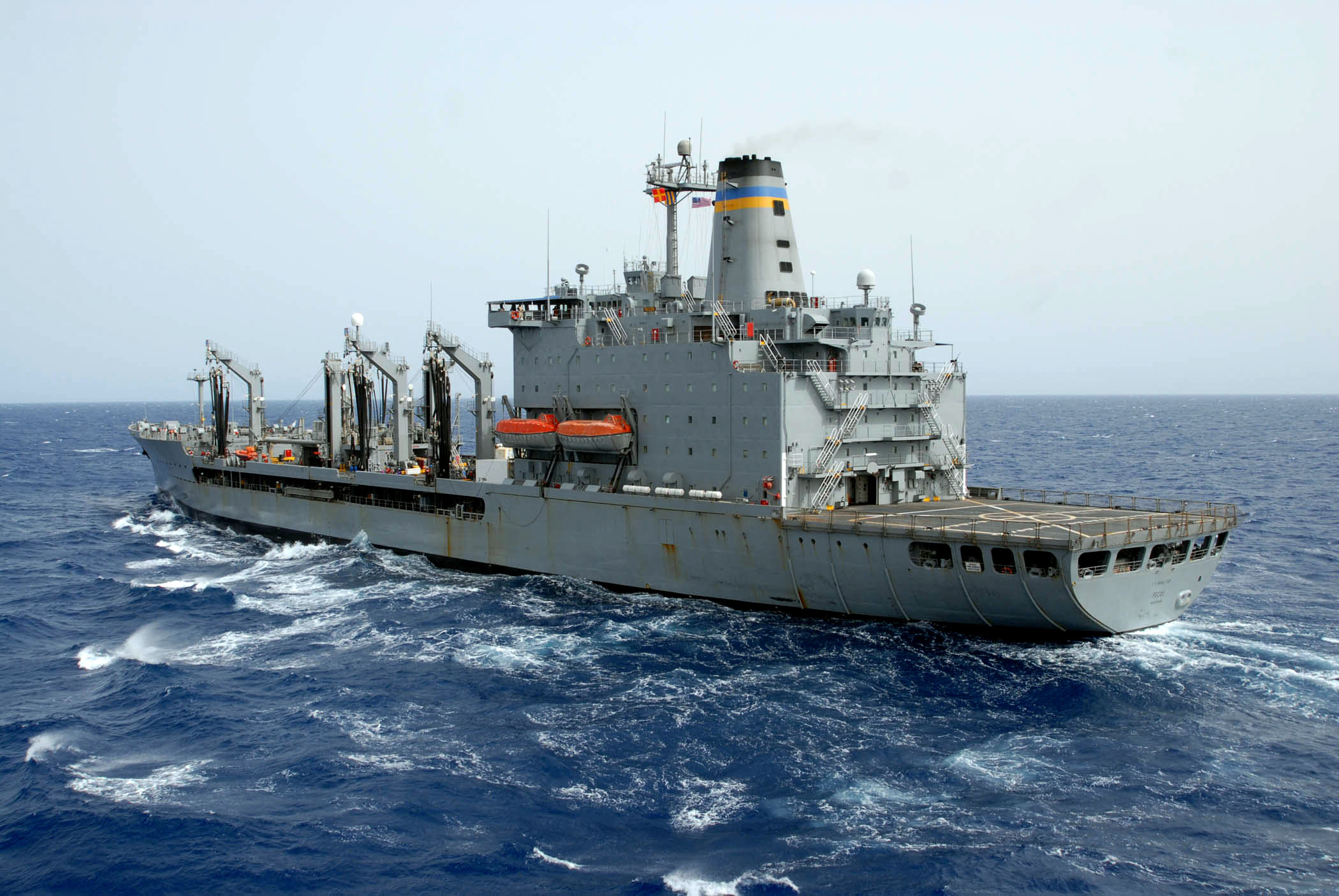 The guided-missile destroyer USS Ross (DDG 71) prepares to pull alongside the Military Sealift Command fleet replenishment oiler USNS Pecos (T-AO 197) during a replenishment at sea. Ross is a member of the Nassau Strike Group deployed to the U.S. 5th Fleet area of responsibility supporting maritime security operations.